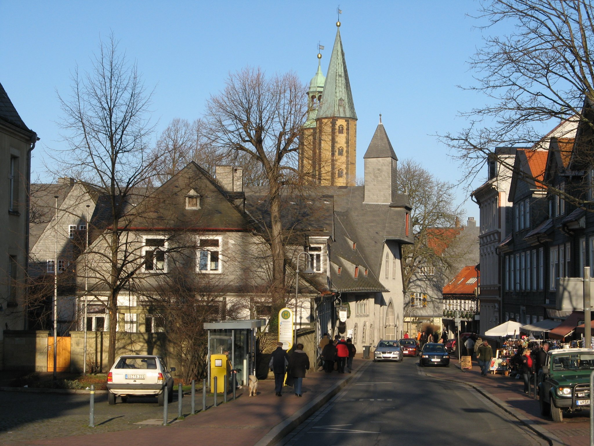 Inner city of Goslar, Germany.